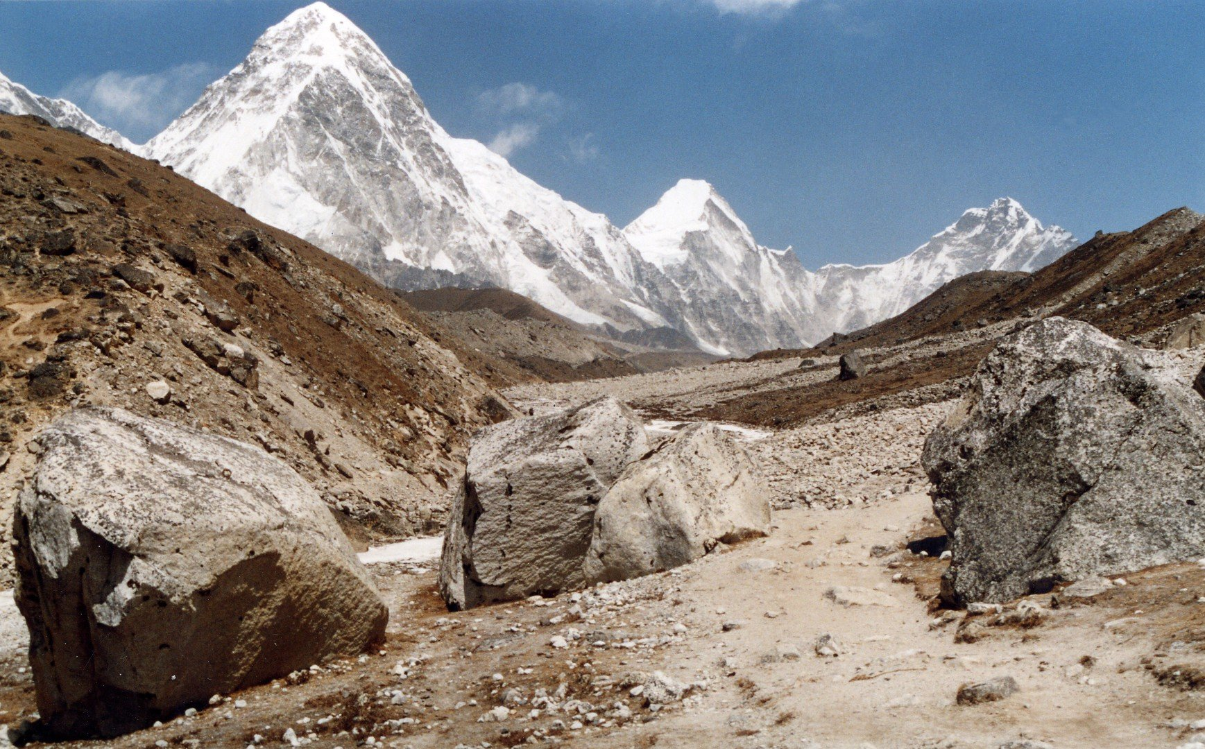 Pumori-Langtren-Khumbutse (from left to right)